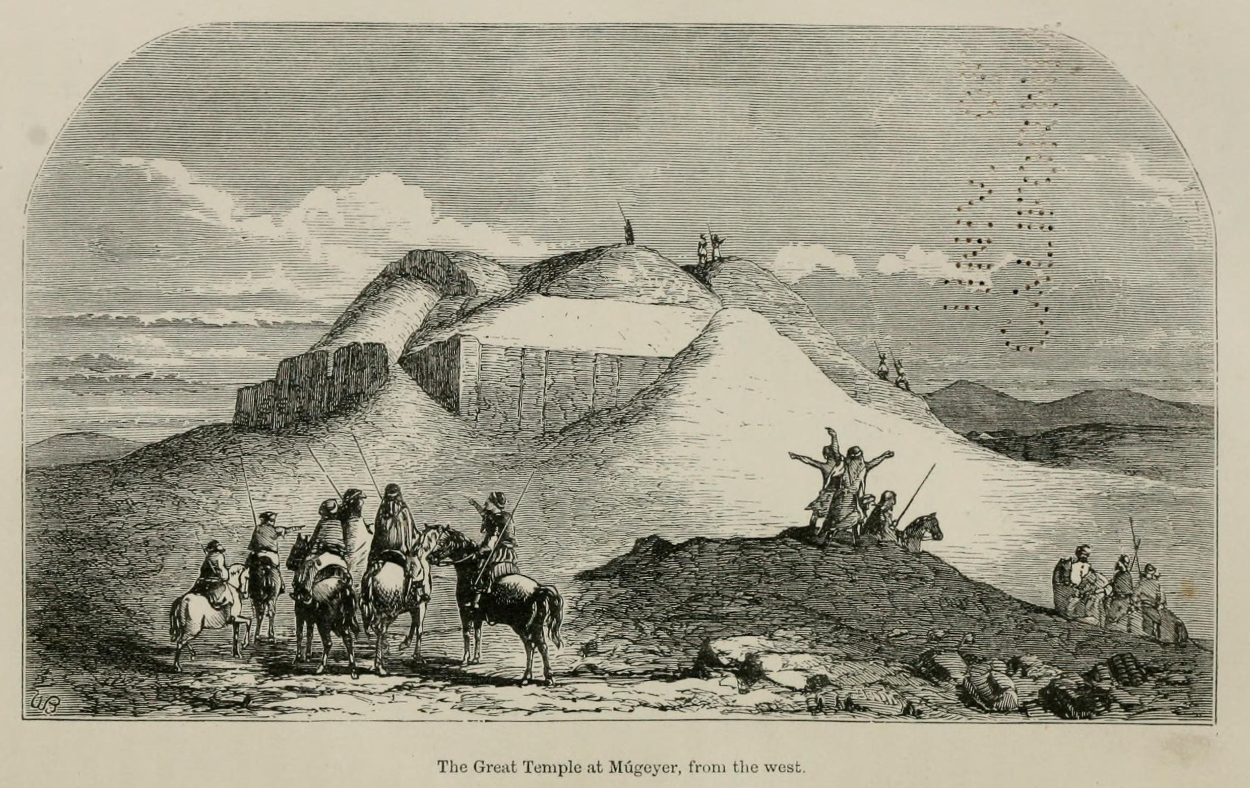 Discovery of the Ziggurat of Ur (The Great Temple at Mugeyer from the west)